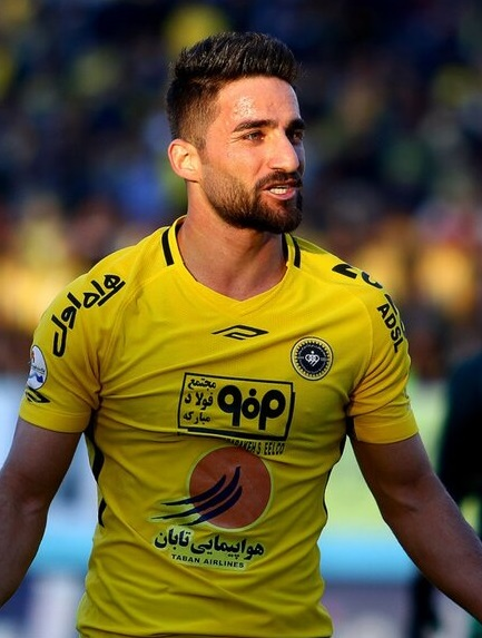 Mehrdad Mohammadi